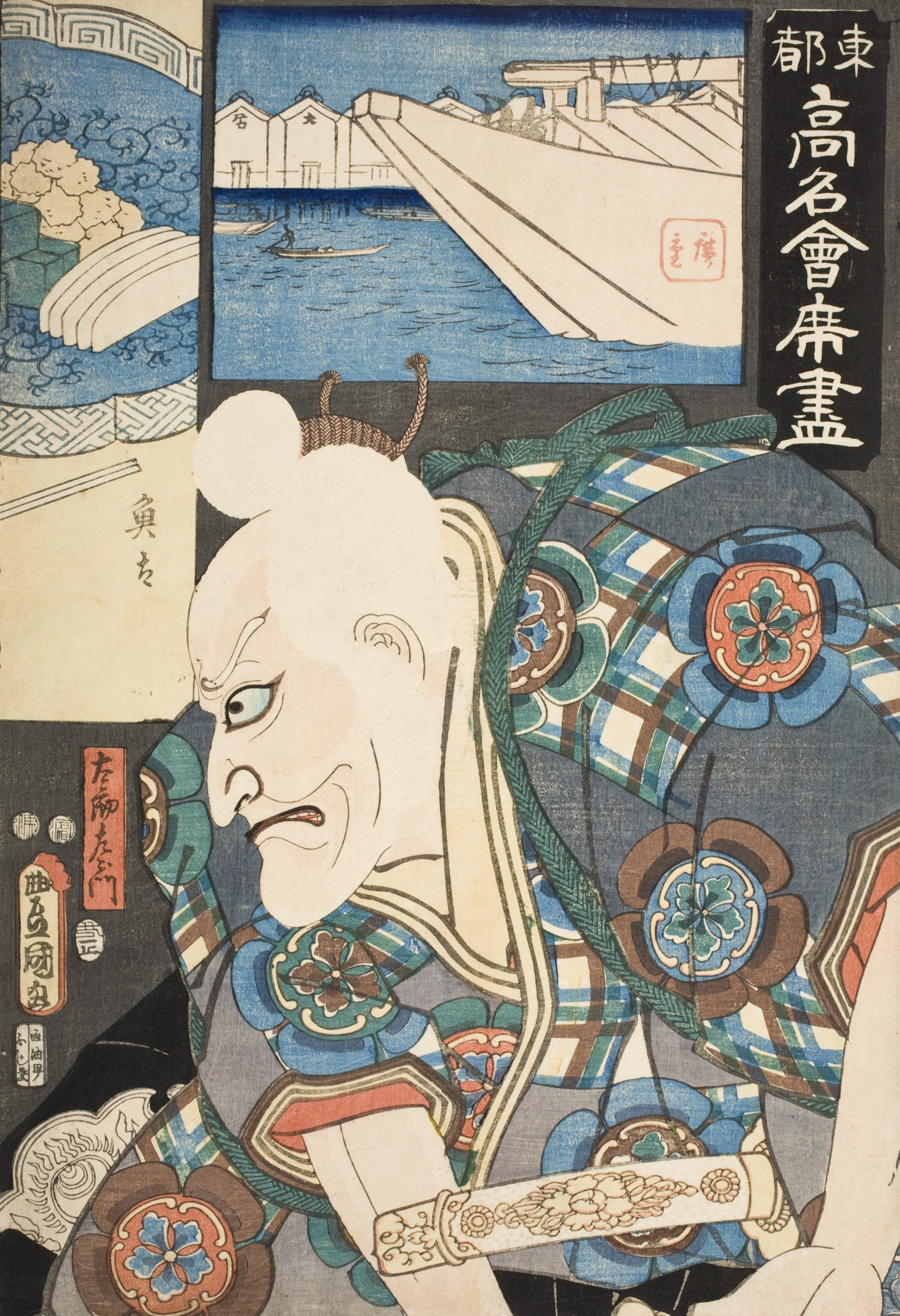 1853 Series: Famous Restaurants in the Eastern Capital Prints; woodcuts Color woodblock print Image and sheet: 14 x 9 1/2 in. (35.56 x 24.13 cm) Gift of Arthur and Fran Sherwood (M.2007.152.47) Japanese Art